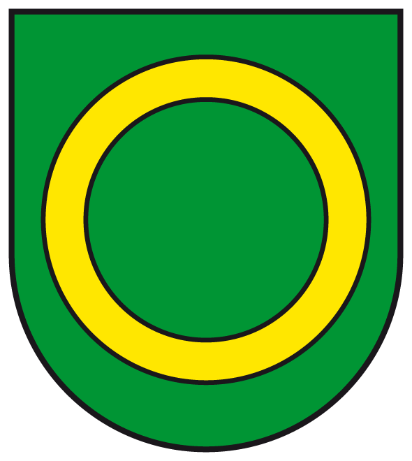 Coat of Arms of Groß Twülpstedt